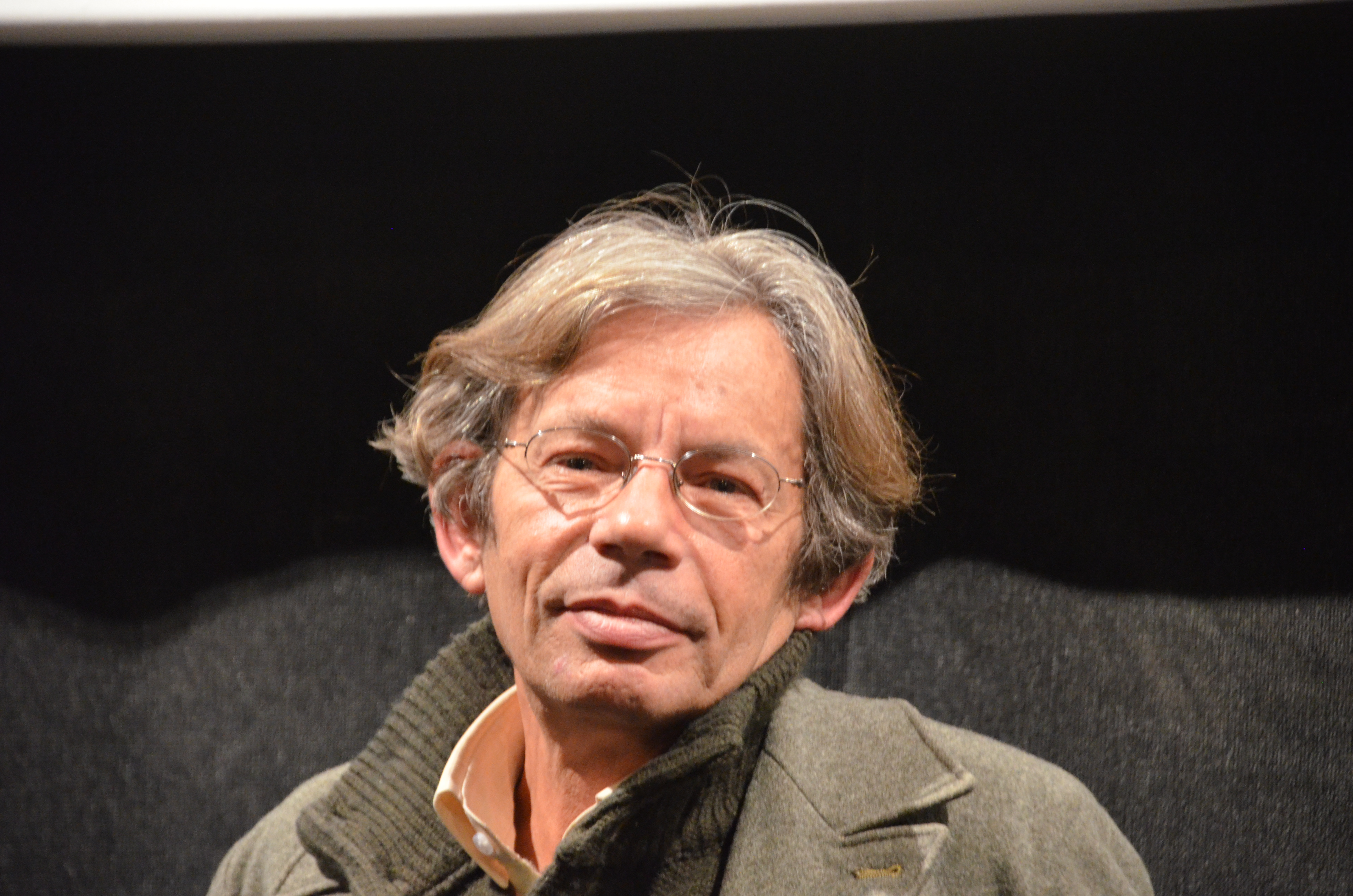 Charles Najman on February 4, 2015 at Espace Saint-Michel Theater, Paris 5th (France), during the premiere of his movie Pitchipoï.